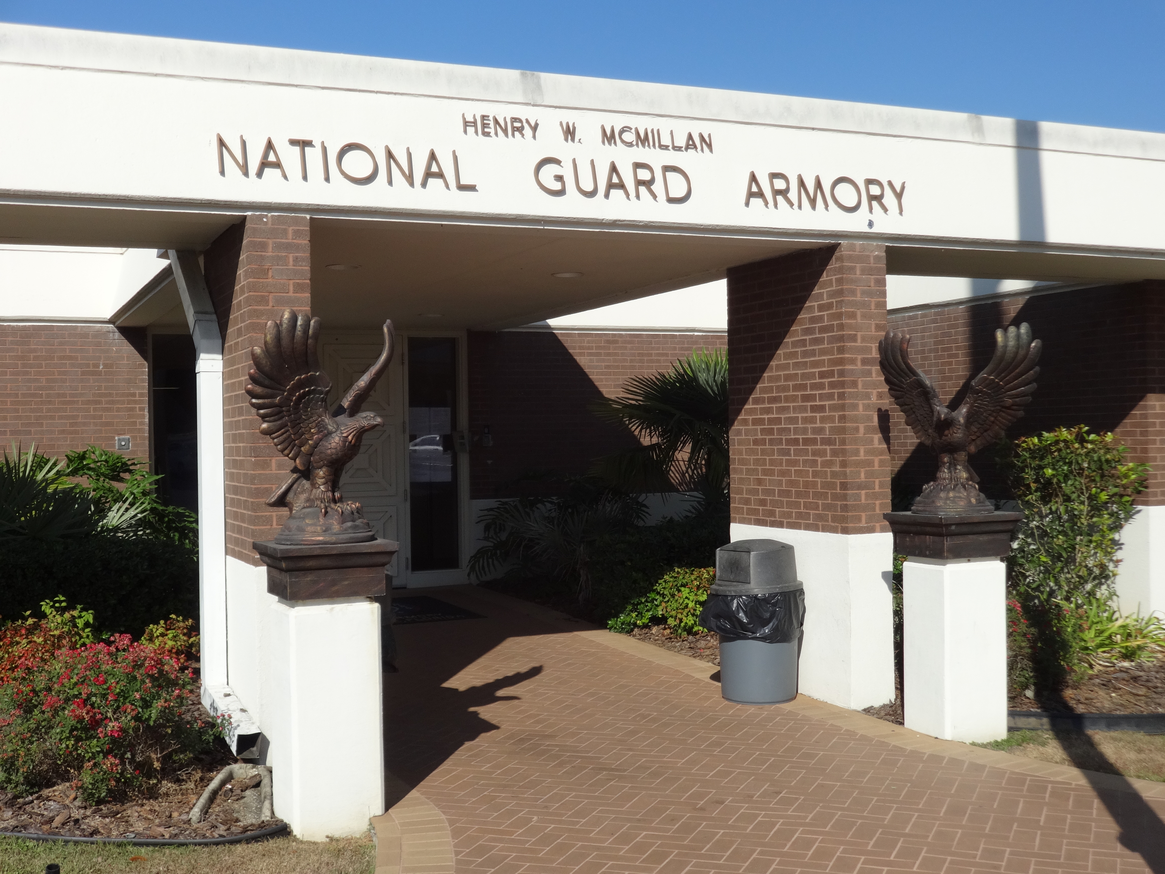 Henry W. McMillan National Guard Armory front with Eagles, Tallahassee, Leon County, Florida